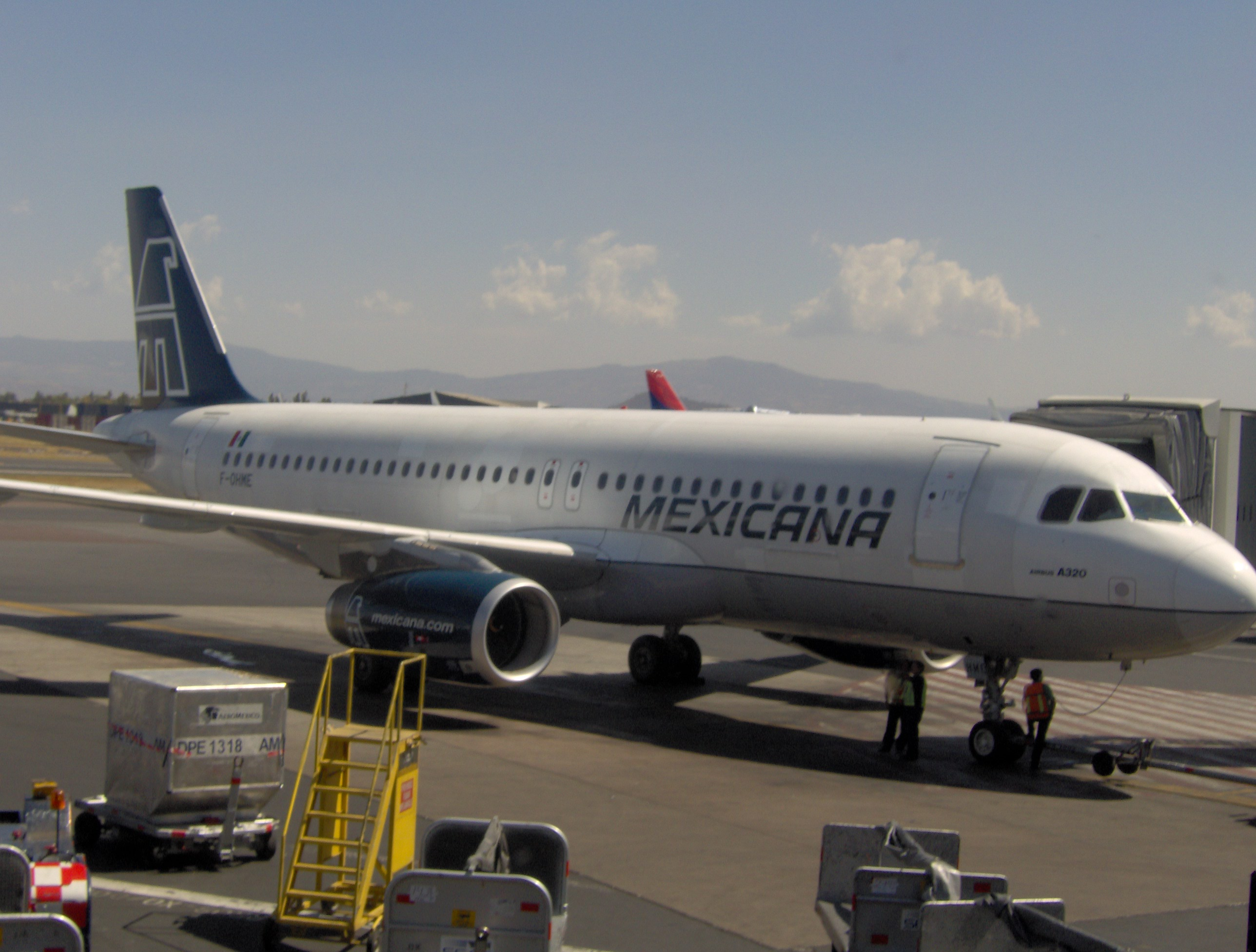 Mexicana Airbus A320 at Benito Juárez International Airport.